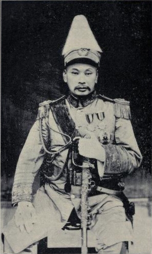 Lu Rongting(1859 - 1928)